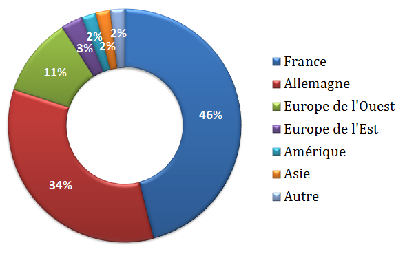 Statistical chart of balanced breakdown by geographical area of Akka Technologies in 2015. (access date August 13th 2016)